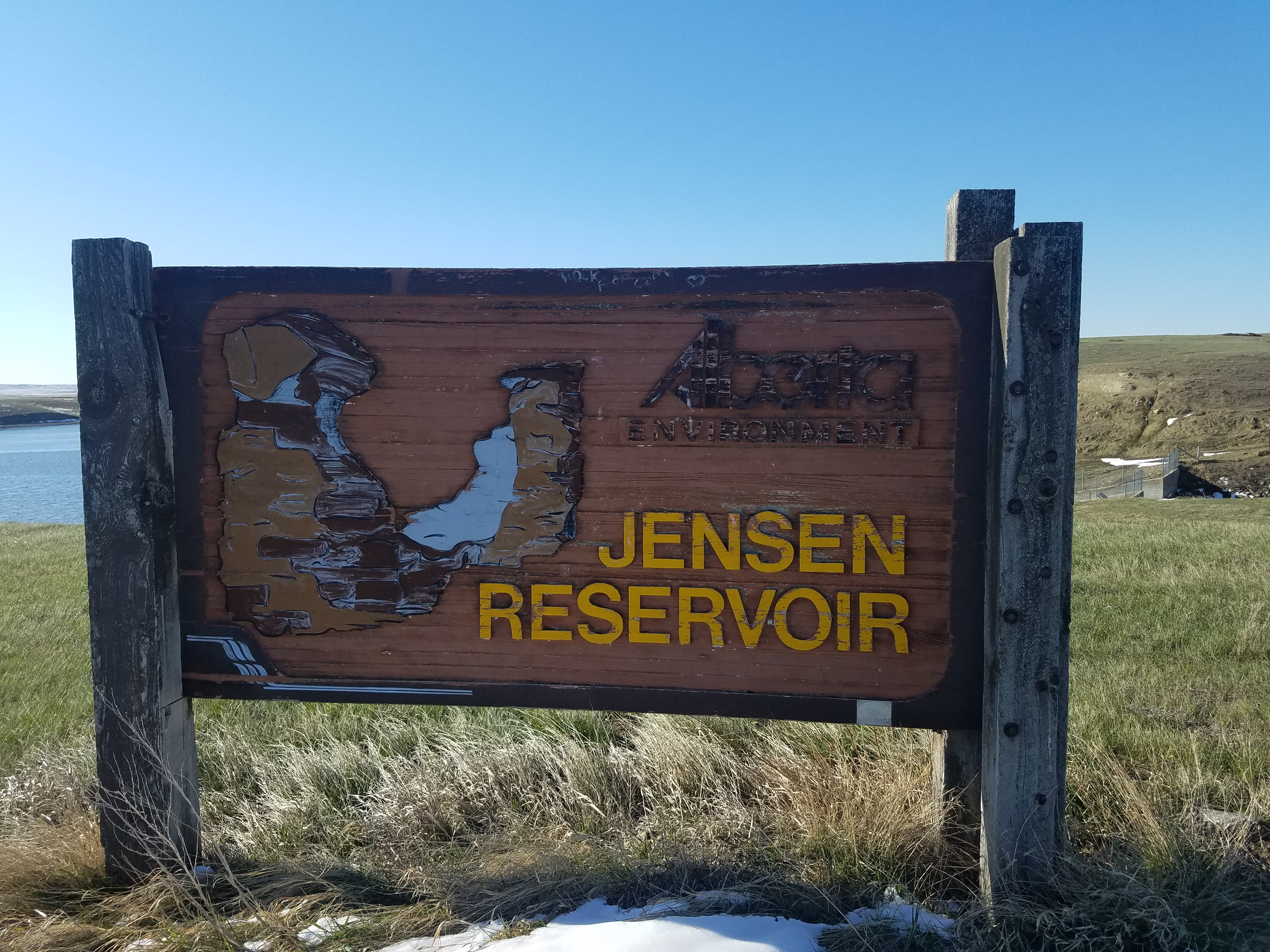 Jensen Dam Provincial MArker